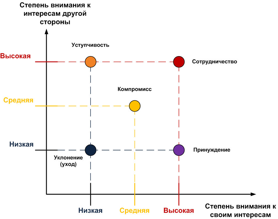 ConflictParticipantsBehaviourStr.